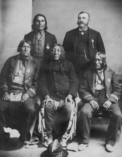 Four Cree Chiefs of Rupert's Land Left to right:Starblanket (Ahtahkakoop), Louis O'Soup, Flying-In-A-Circle (Kahkiwistahaw), Peter Hourie, and Big Child (Mistawasis) in a photo taken October 16, 1886, on their visit to Brantford, Ontario.